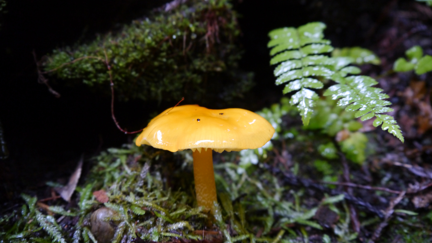 A fungus growing on the mossy soils in Redwood National Park, Northern California, USA.